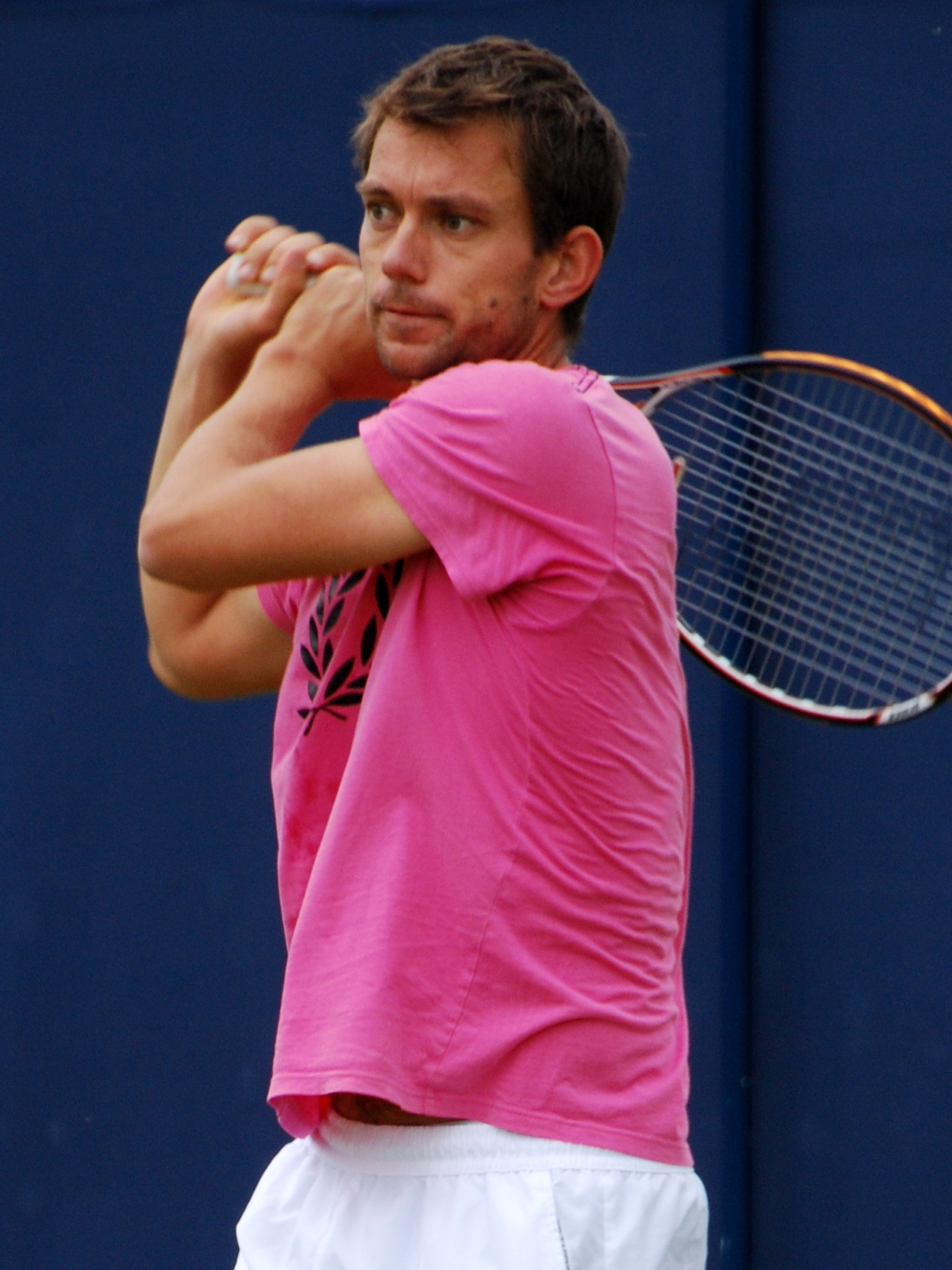 One half of the 2012 Wimbledon Men's doubles champions.